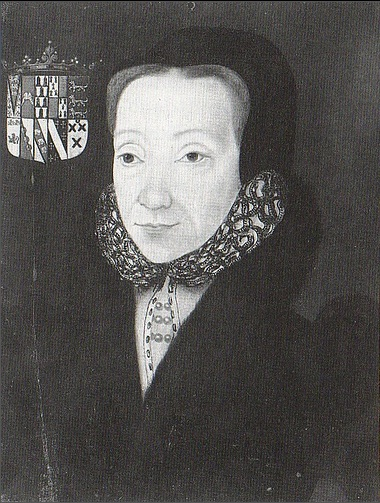 Anne Seymour, née Stanhope, wife of Sir Edward Seymour, Duke of Somerset.